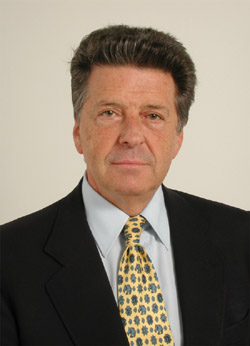 Photo of Publio Fiori